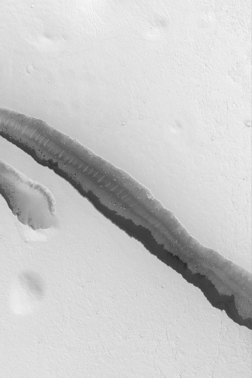 cerberus fossae geological fault, elysium planitia, mars